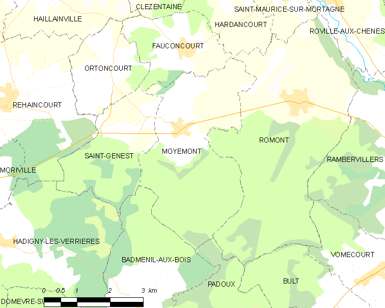 Map of French municipality Moyemont